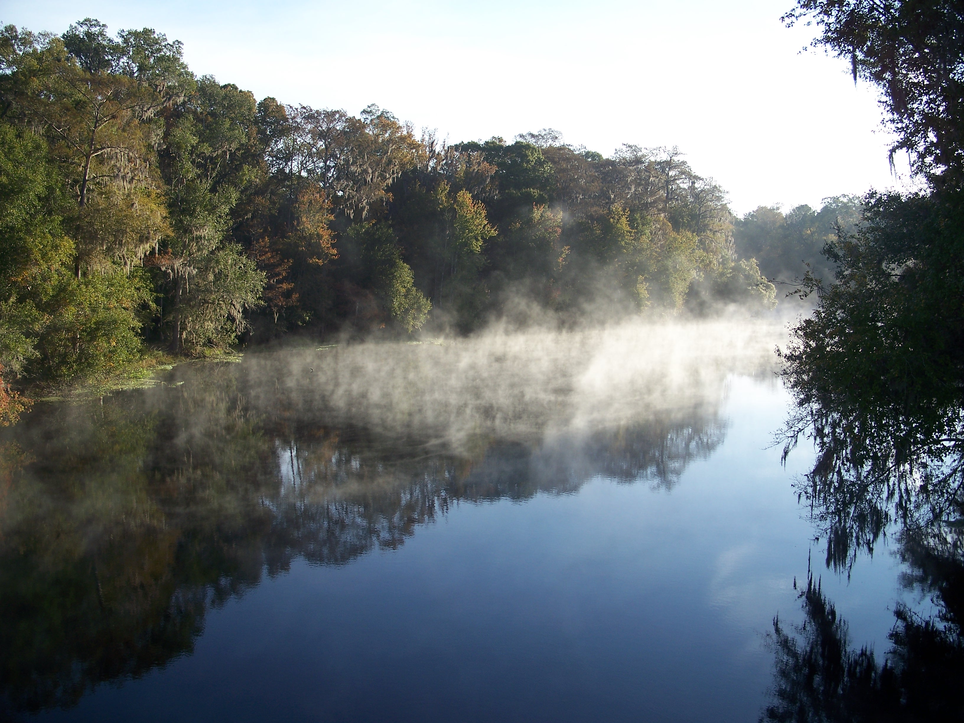 High Springs, Florida: Santa Fe River, from US 441/US 41 bridge. Looking east not long after sunrise.